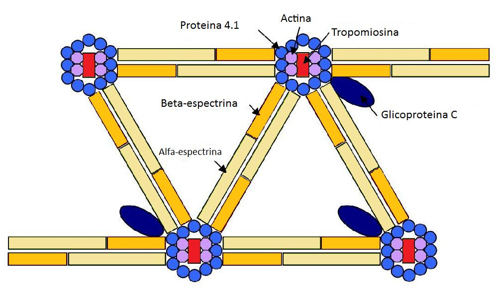 Paper of spectrin in cytoskeleton.